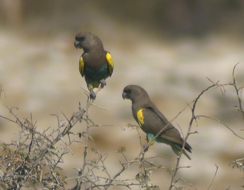 Meyer's Parrots at Kalkheuwel waterhole, Etosha, Namibia